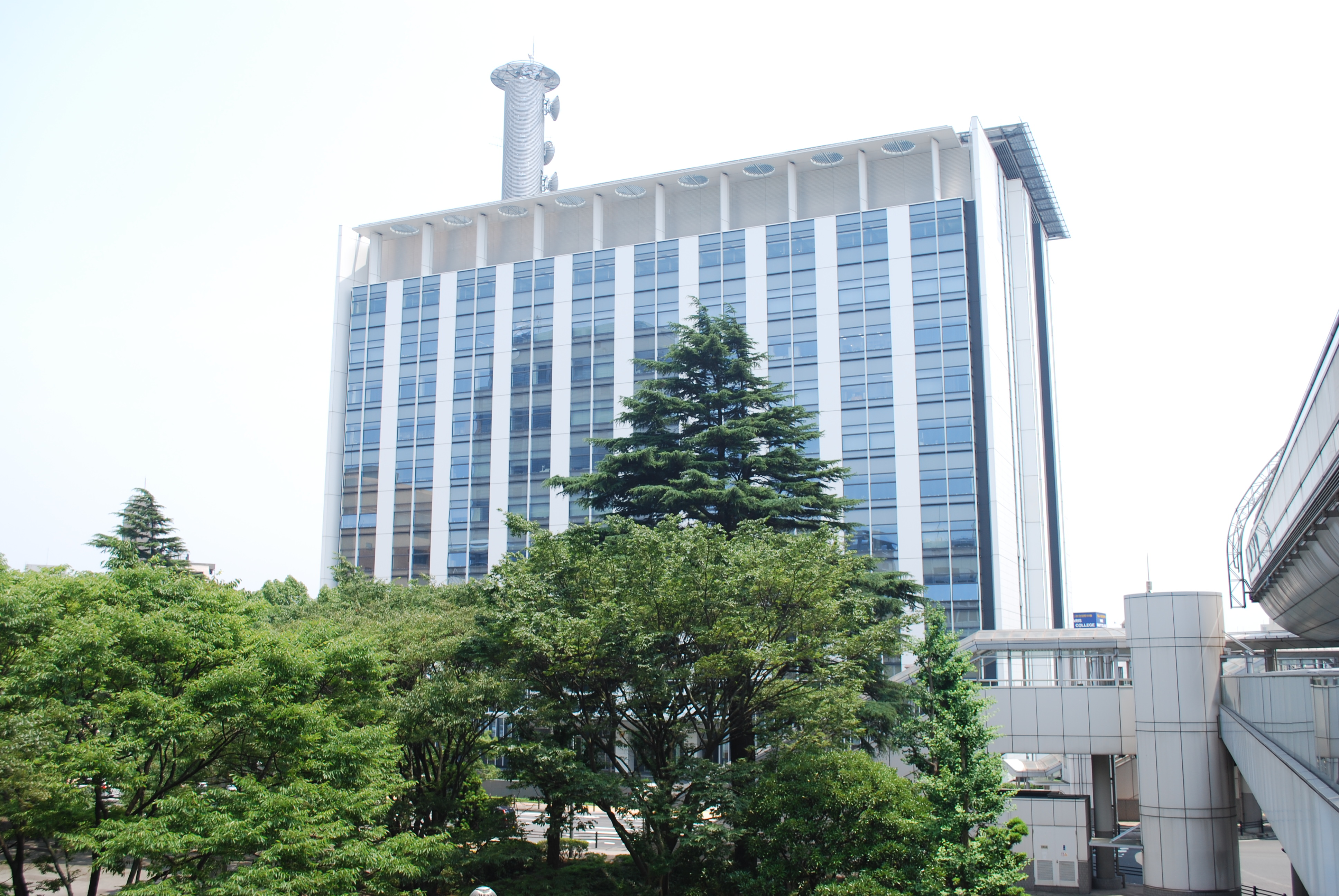 Chiba prefectural police headquarters, Chiba-city, Japan